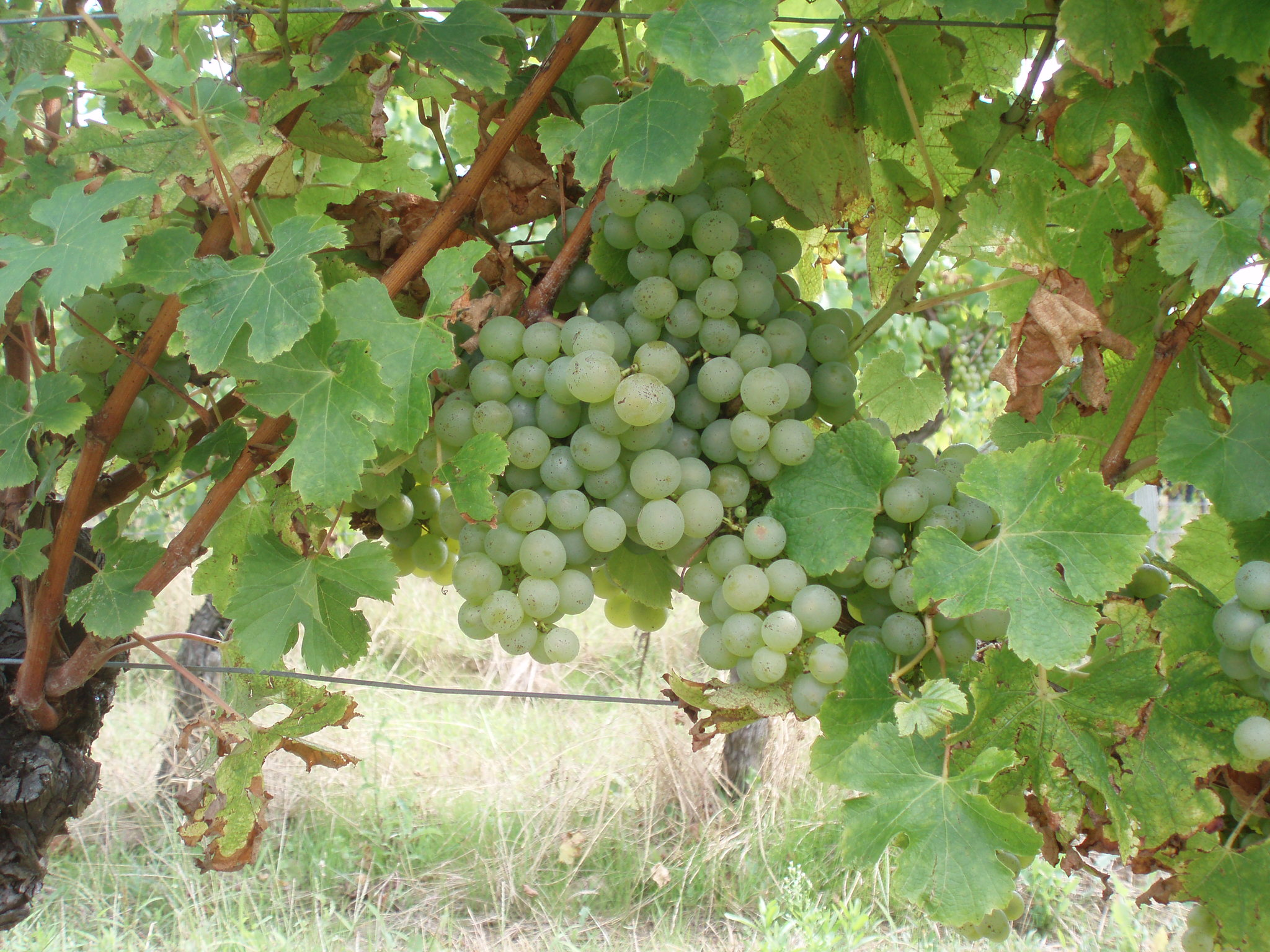 Semillon grapes growing in Bordeaux.